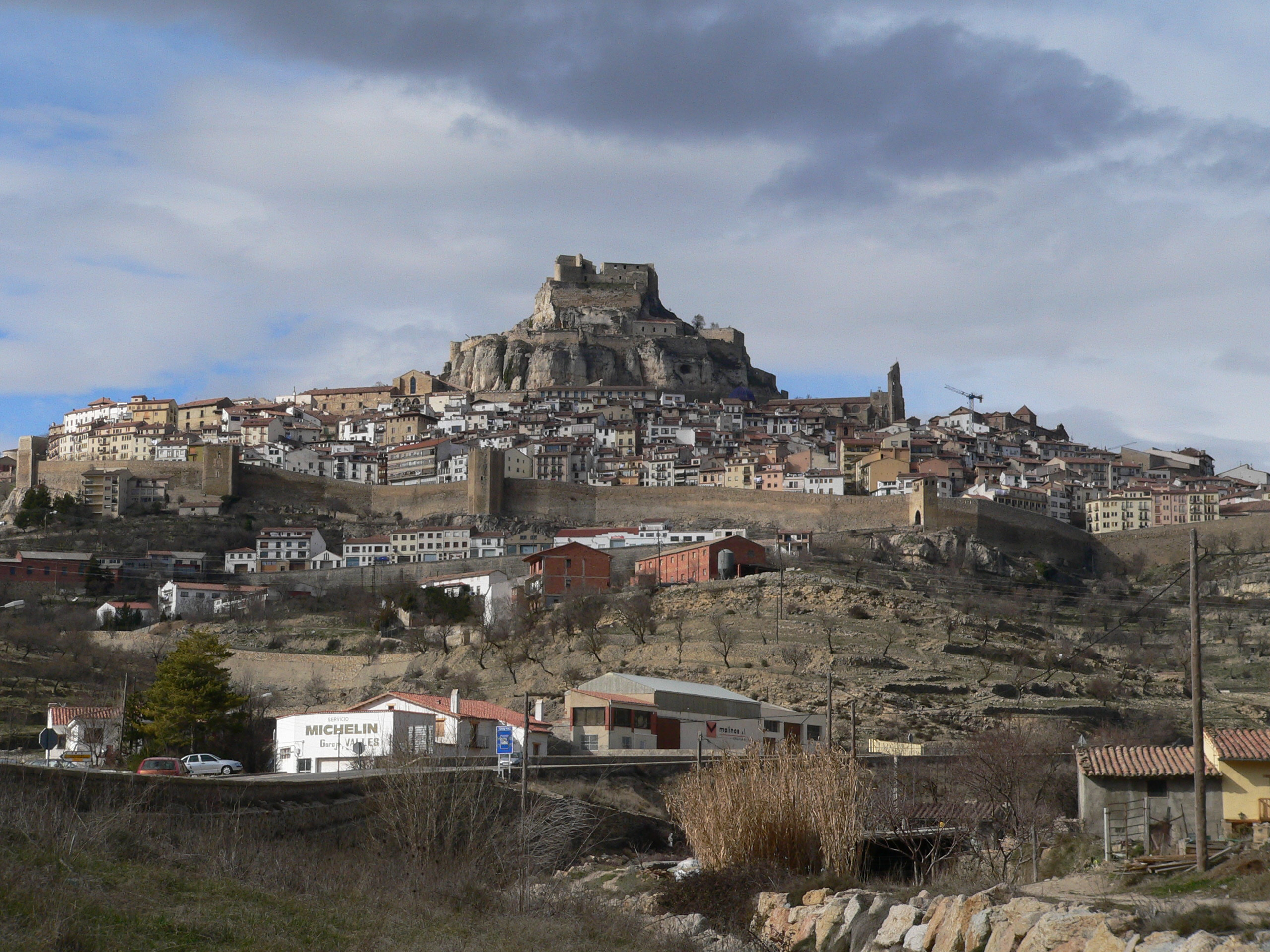 Panoramic view of Morella, España